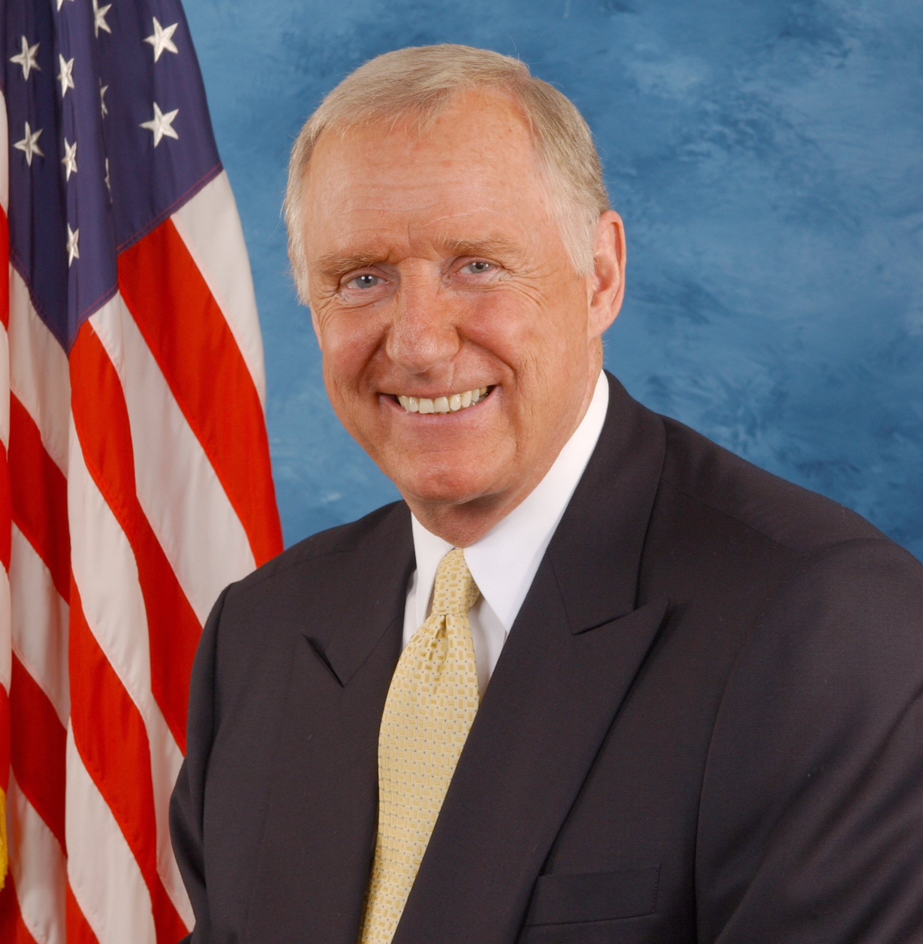 Official porrait of US Rep Dan Burton